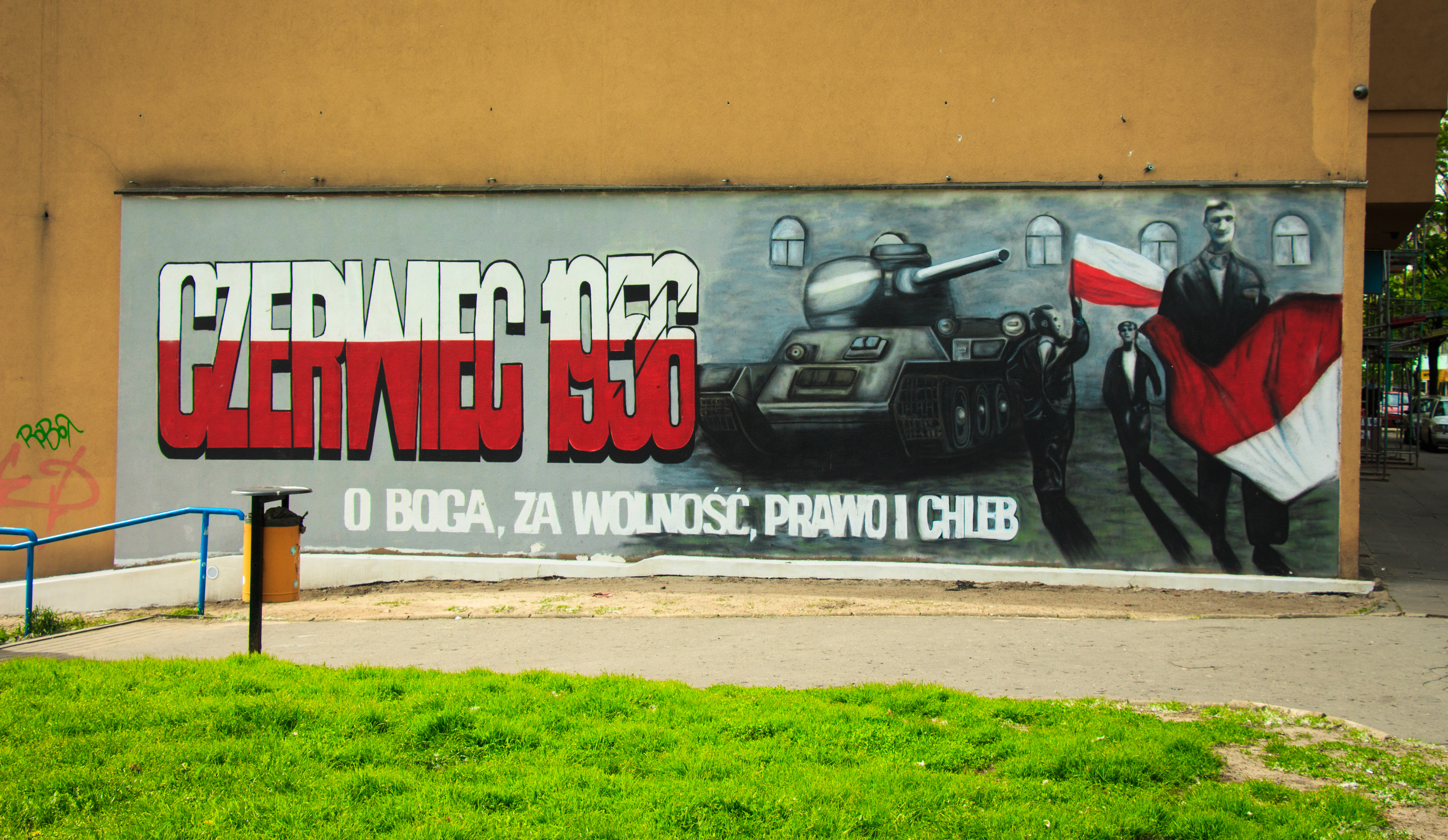 June 1956 mural in Poznań on Górna Wilda street